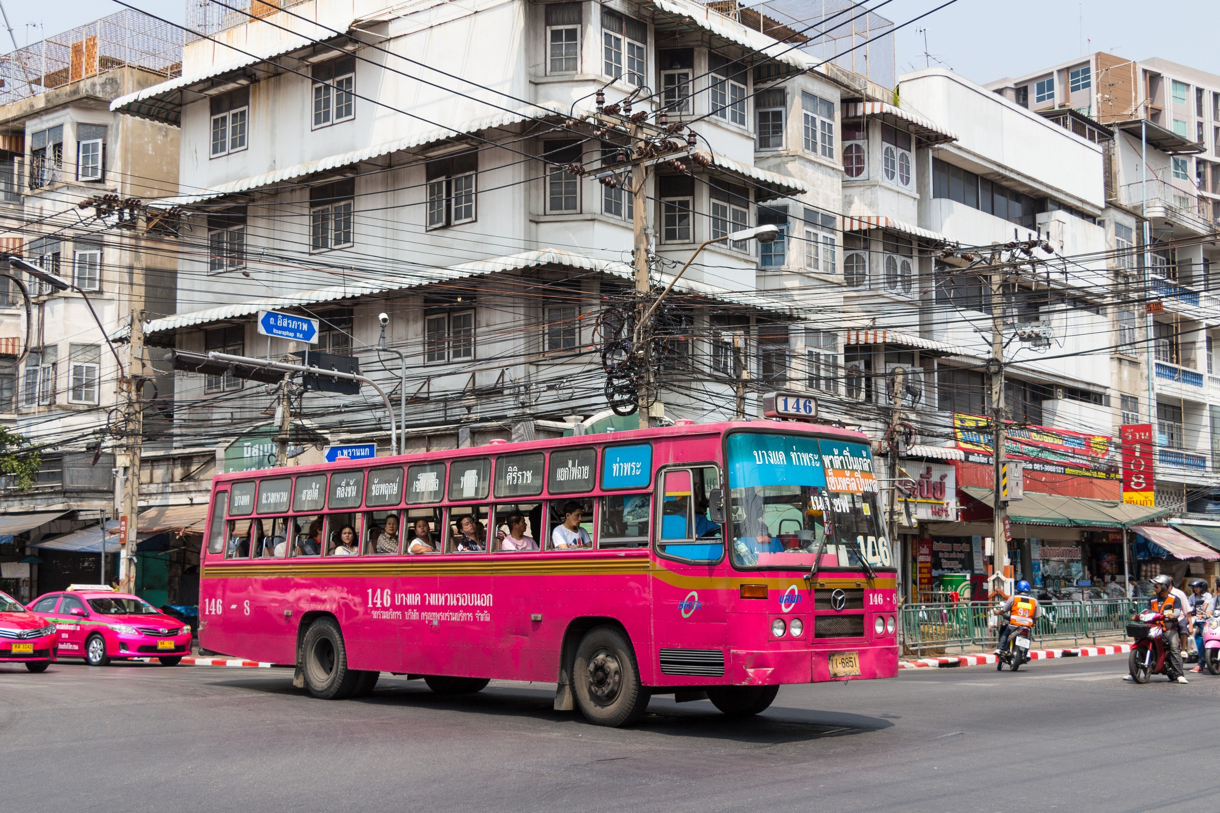 Bangkok bus 146-8